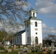 Slöinge kyrka 2011